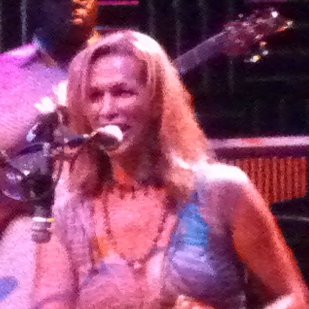 Koko Jones performing at Joe's Pub June 2011